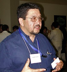 Dr Ken Alibek, former Soviet biowarfare expert